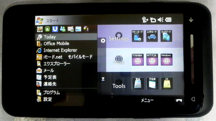 T-01A docomo